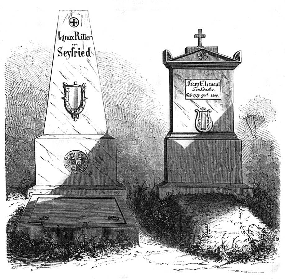 no caption